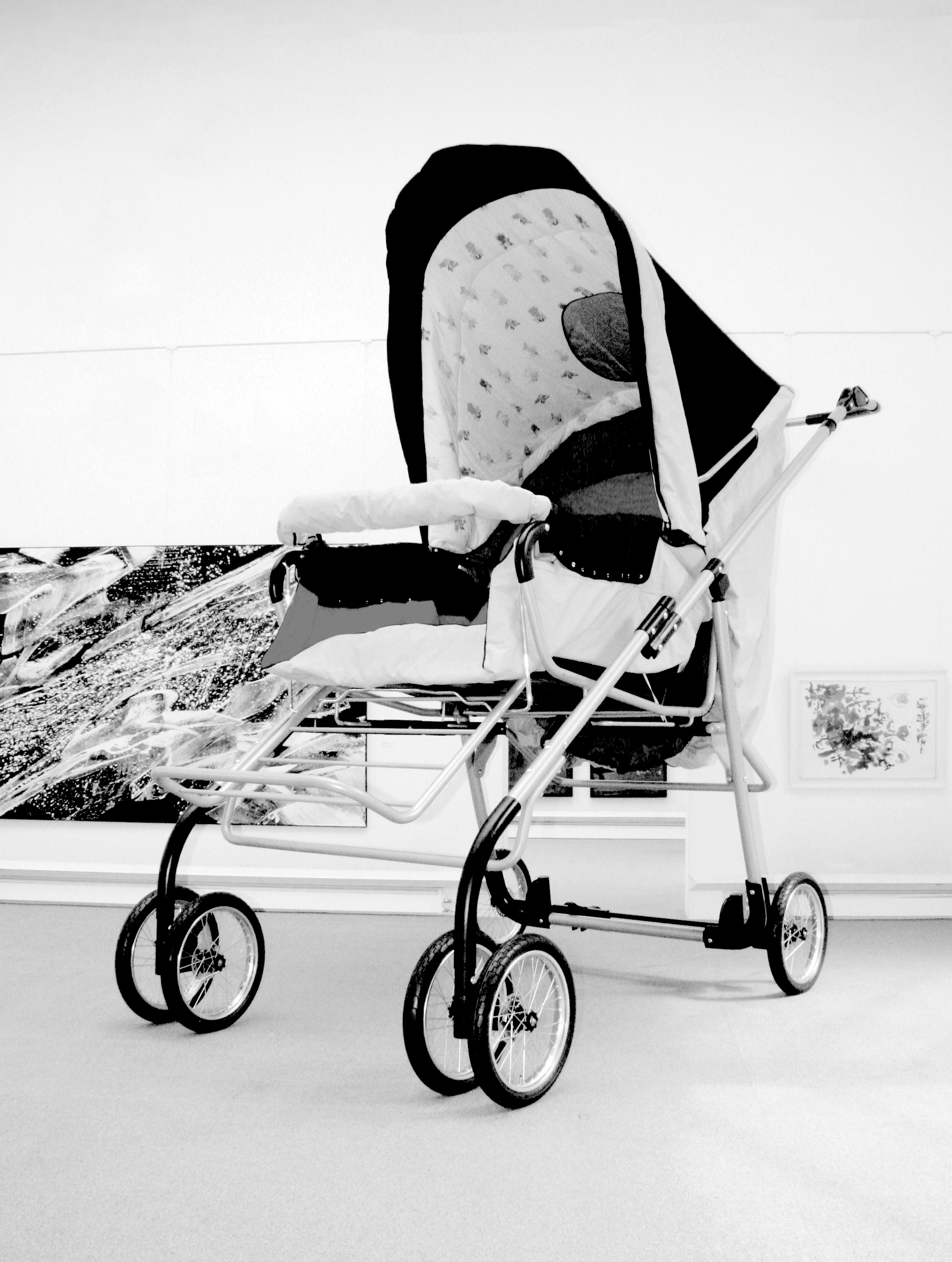 Real-LUX, En 00197/2003 Metall lackiert, Stoff 500 x 200 x 490 cm